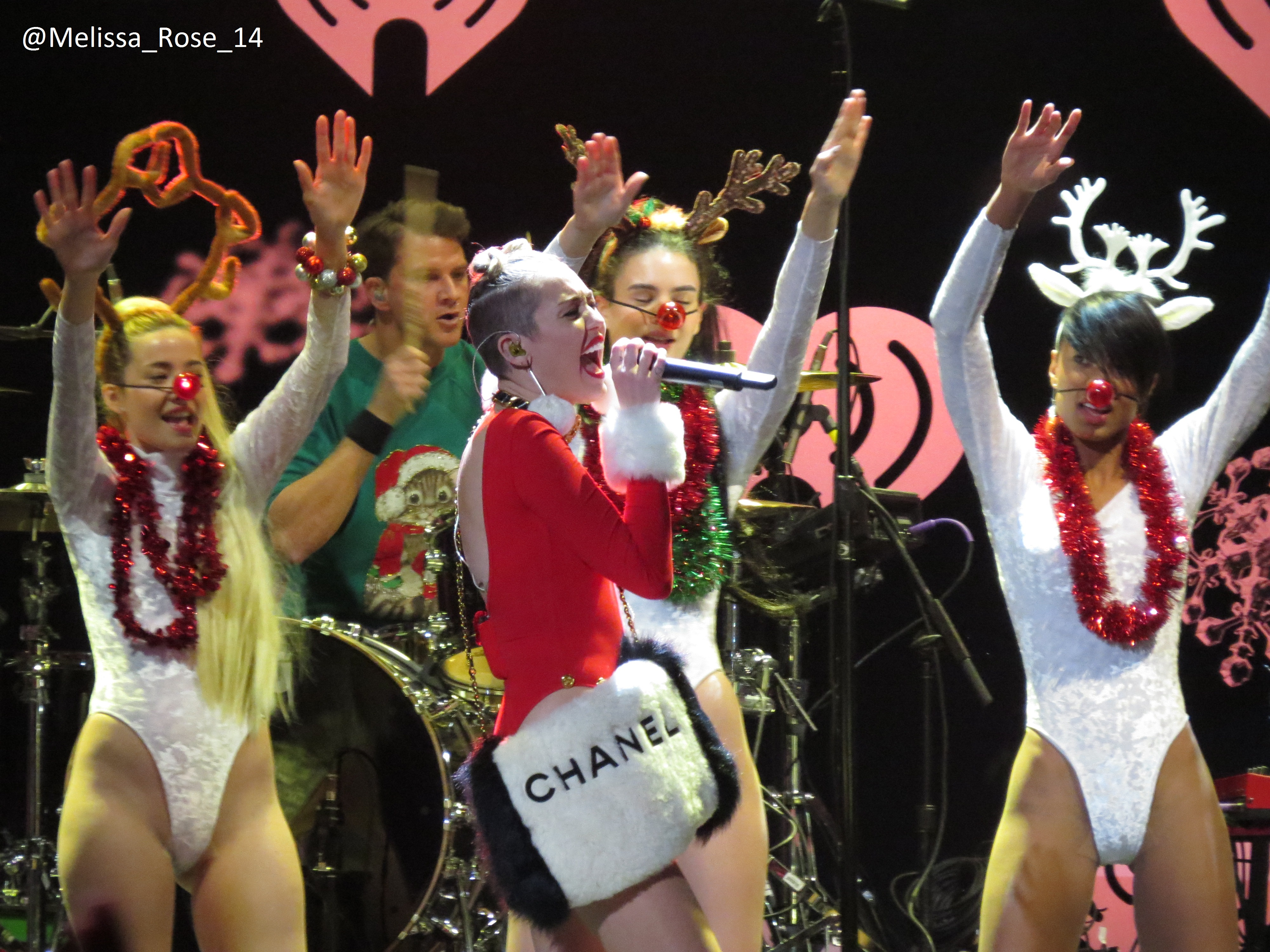 Miley Cyrus performing at 93.3 FLZA’s Jingle Ball 2013 on December 18 in Tampa, Florida.